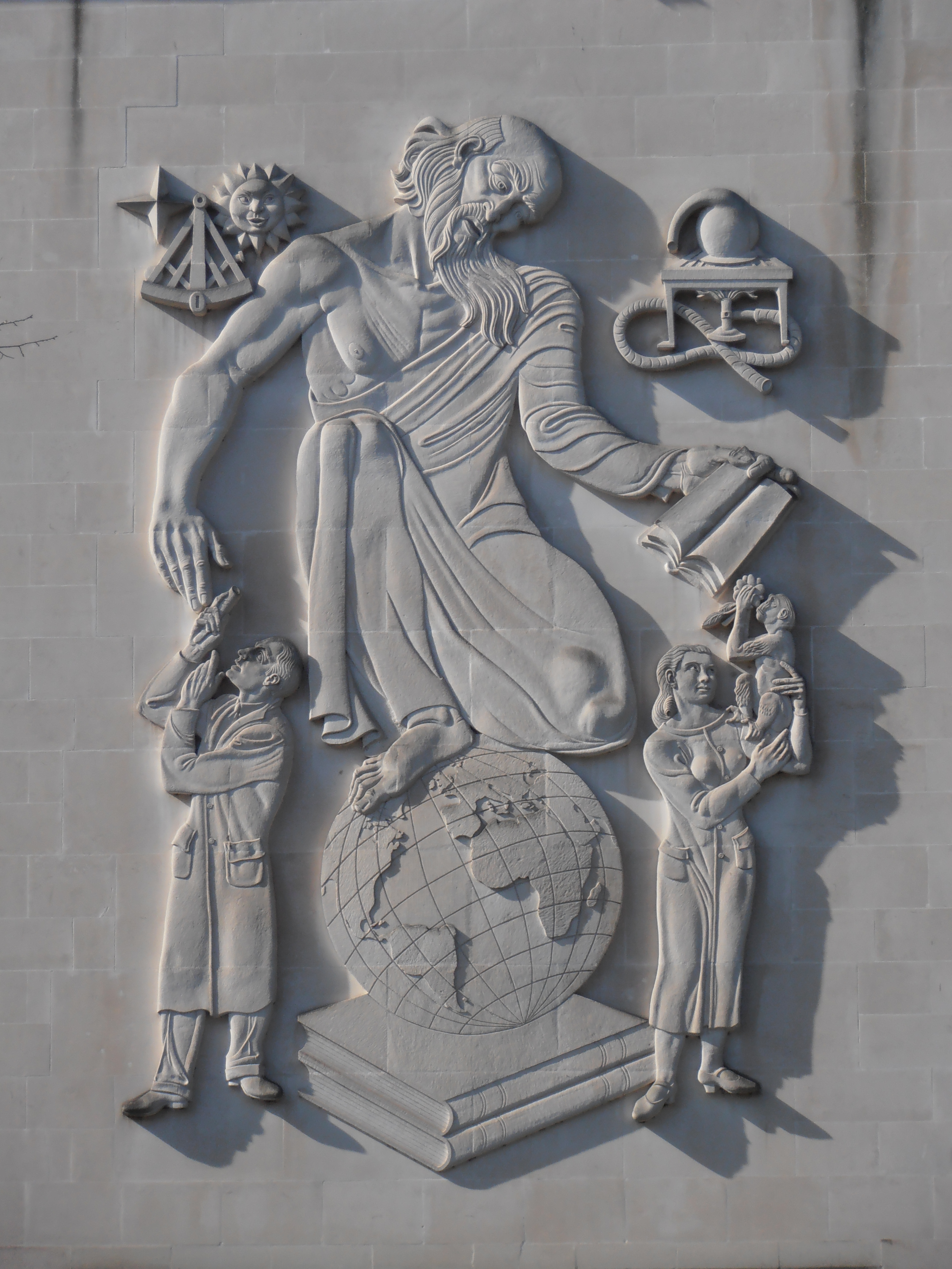 Untitled relief sculpture (1960–1) by Edward Bainbridge Copnall on the Redwood Building, Cathays Park, Cardiff